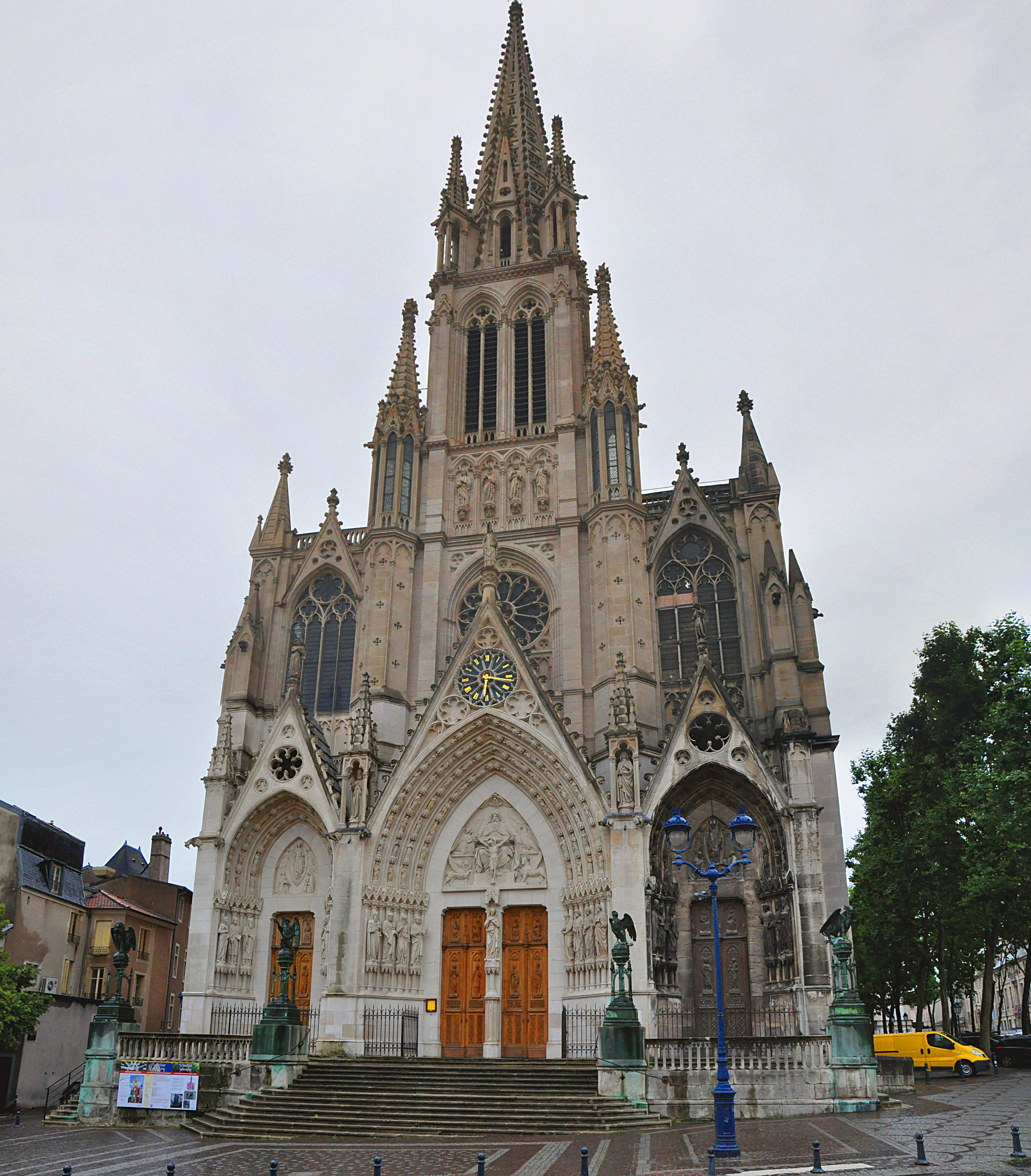 Church Saint-Epvre (Nancy, Moselle, France)